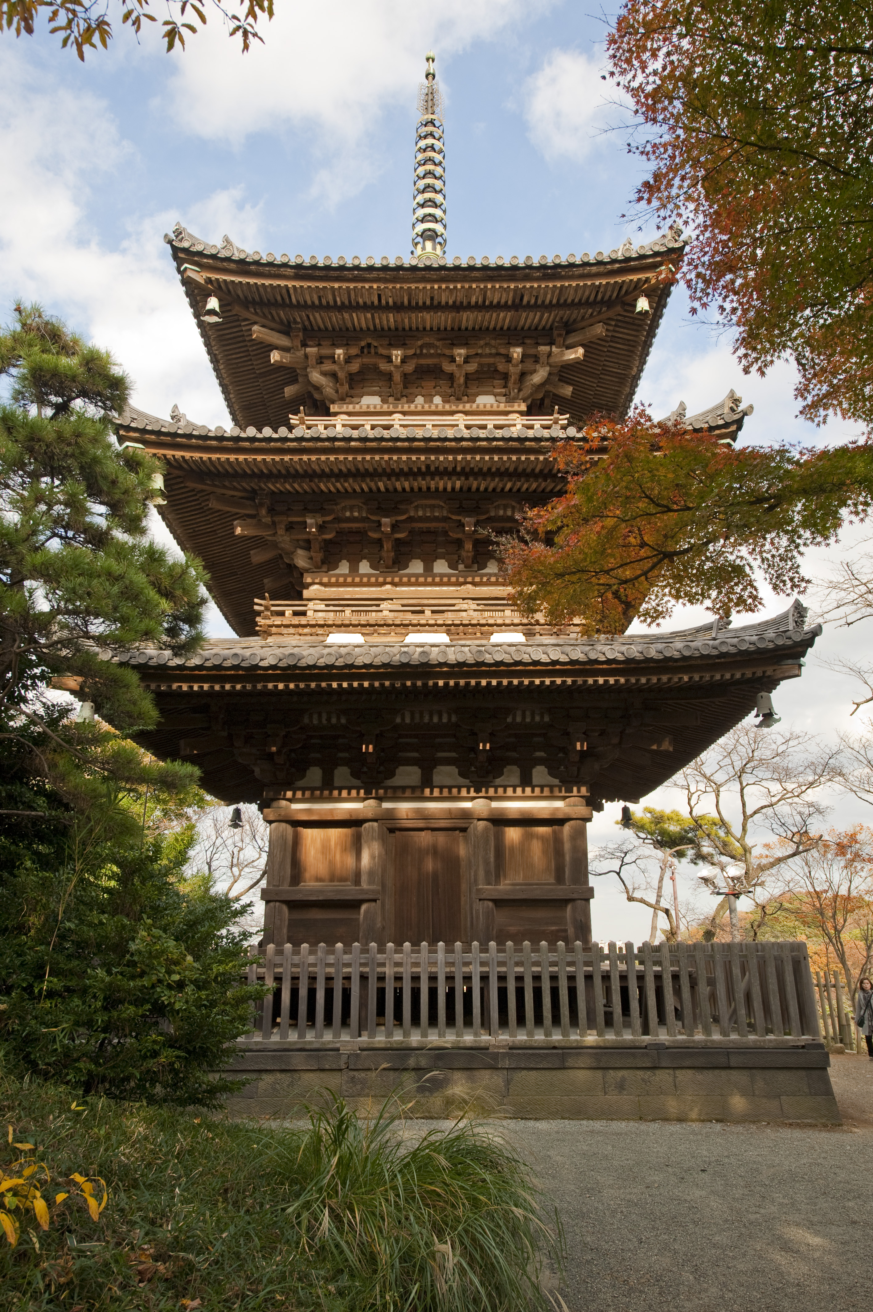 Three storied pagoda of old Tomyoji, Sankeien Garden, Yokohama, Japan